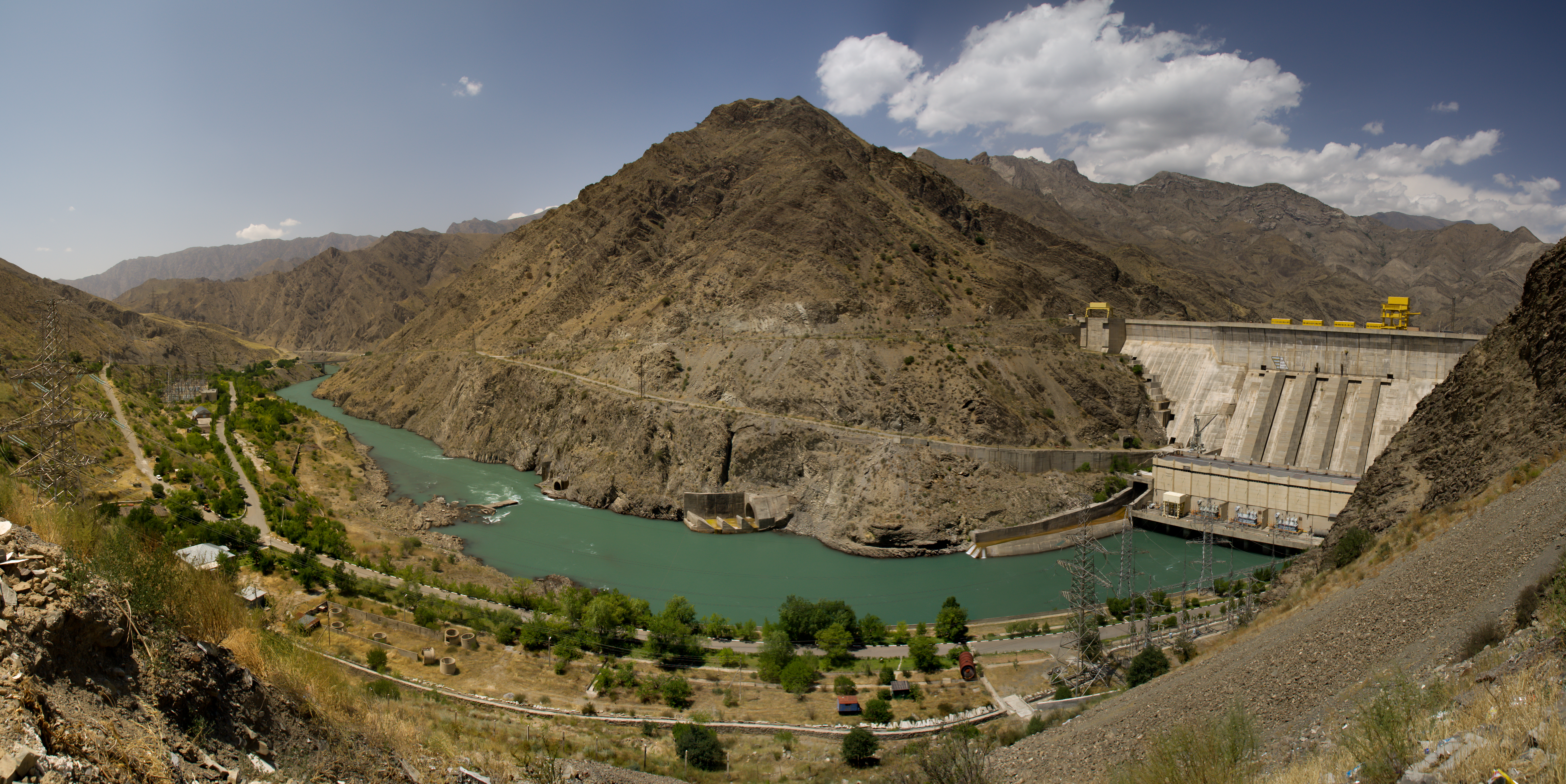 Kurpsai Dam, Kyrgyz Republic